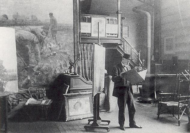 Emile Claus in his workshop in Astene, near Deinze (Belgium), with his painting 'The Beet Harvest' in the background